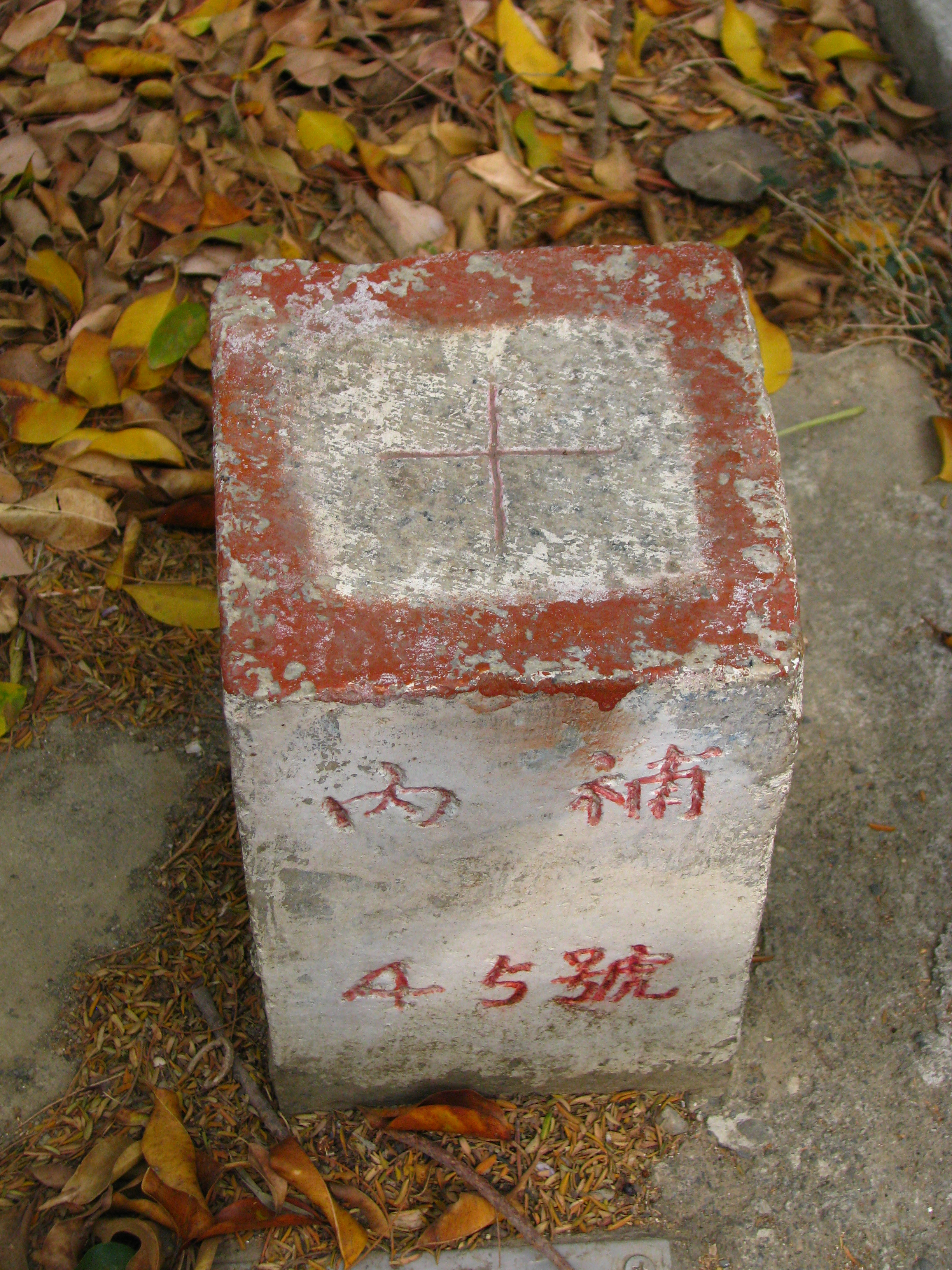 This is Triangulation station of Mt. Linnei, which a hill in Kaohsiung, Taiwan.